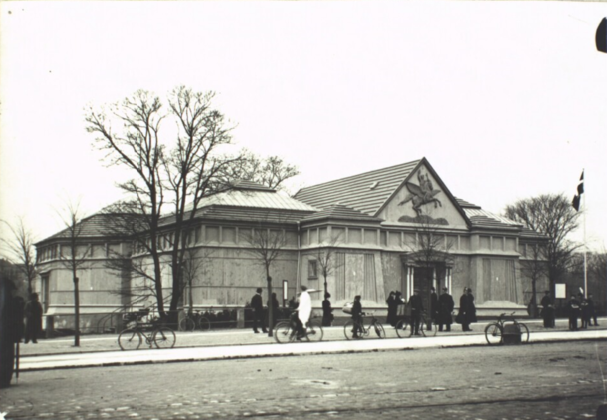 Den Frie Udstillingsbygning in Østerport, Copenhagen, Denmark